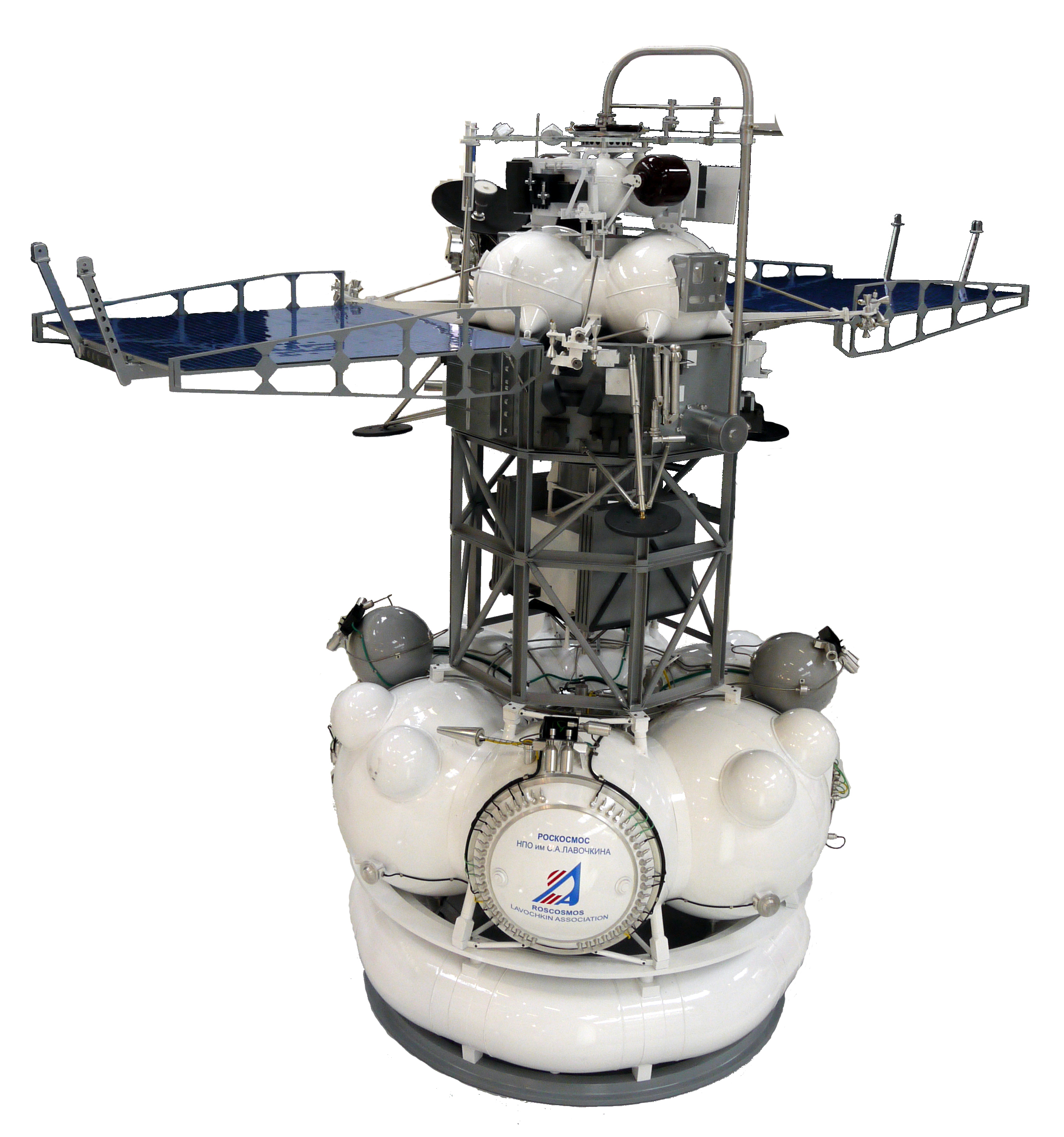 Model of Phobos Grunt spacecraft by Roscosmos at the 2011 Paris Air Show.